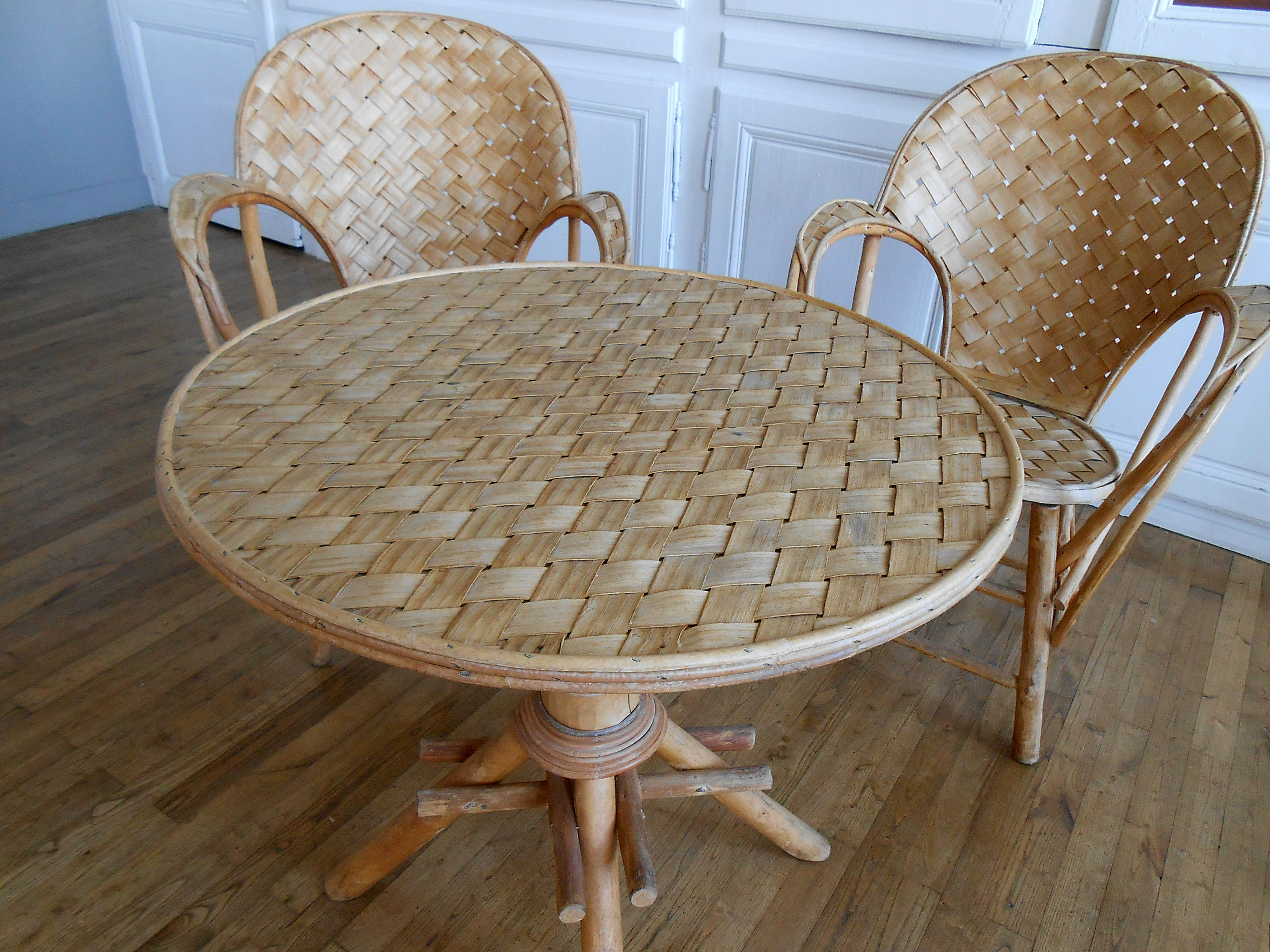 Typical table and chairs made of Limousin chestnut, France.